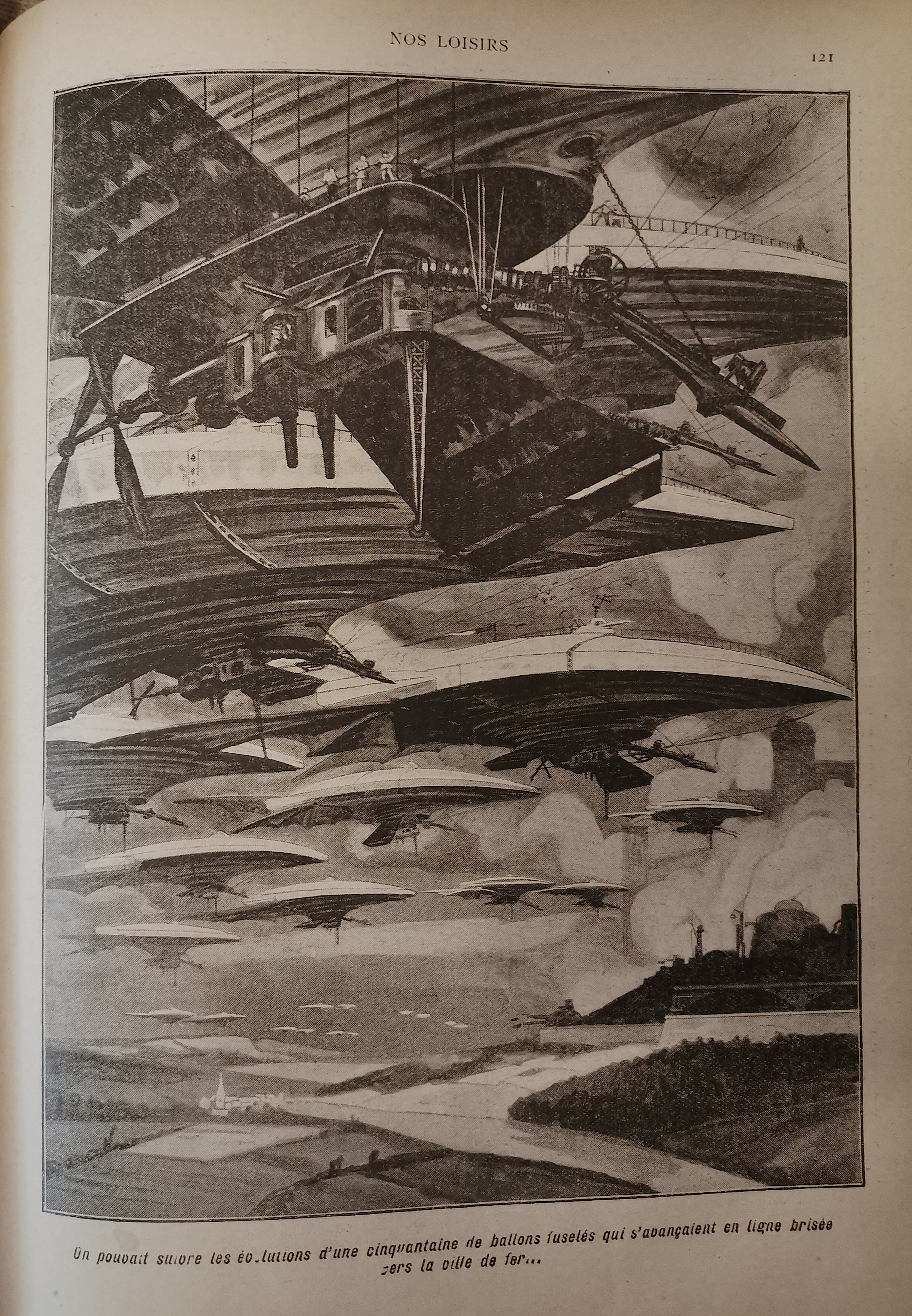 Illustration from Un monde sur le monde, novel by Lanos & J. Perrin, published in Nos Loisirs (Paris), from 1910 to 1911.